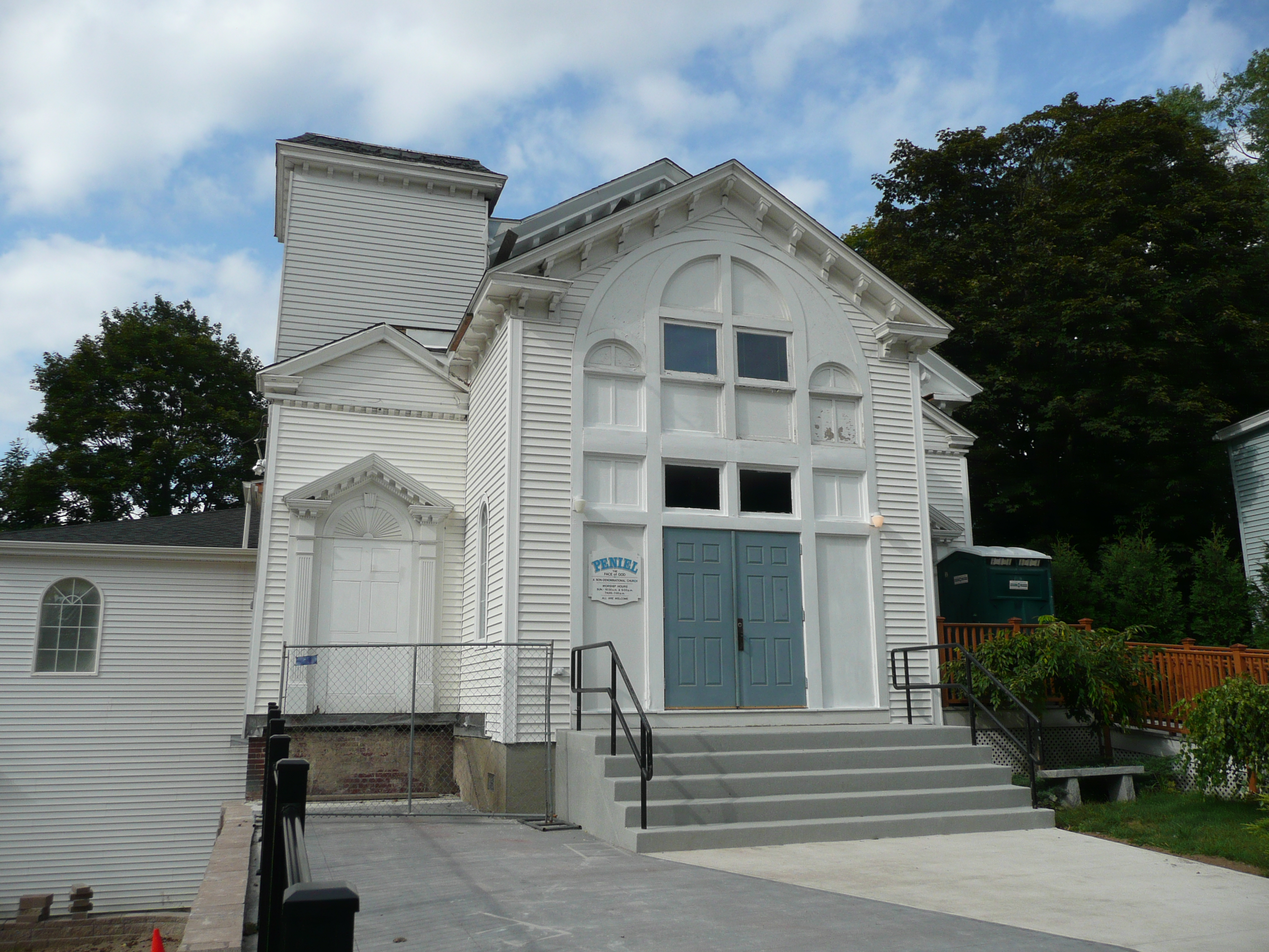 This is The King's Chapel in Norwich, Connecticut, now called Peniel. Sister church to Bethel Interdenominational Church in Mansfield Woodhouse, England.